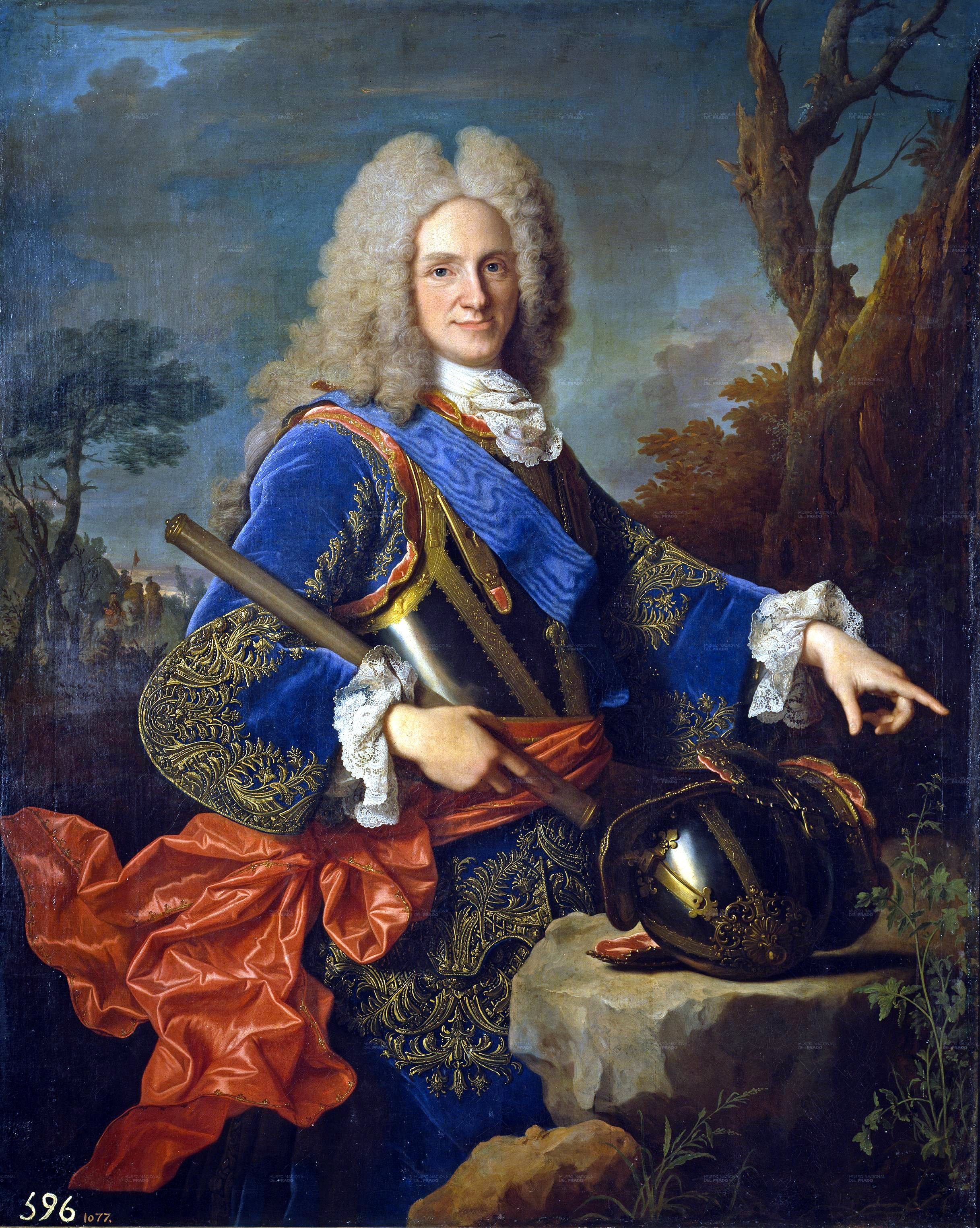 This is an official portrait of Felipe V (1683-1746), the first Bourbon king of Spain. The grandson of Louis XIV (1638-1715) of France, he was born in Versailles and was proclaimed King of Spain in 1700. Married two times, he had numerous children and died in Madrid in 1746. The king wears armor and carries a ruler's staff. A warrior's helmet rests on a stone in front of him. Along with the sumptuous embroidered frock coat and red girdle at his waist, which indicate his regal condition, he wears the insignia of the Golden Fleece and the sash of the Saint Esprit, symbols of his Spanish dominion as heir to the House of Burgundy, and of his French origins. This composition became the model for official portraits of the King and was repeated on innumerable occasions by various artists with scant variations. It stands out for its elegance, refinement and distinction, characteristics directly connected to French painting of that moment, especially the production of Hyacinthe Rigaud (1659-1743), who was Ranc's teacher and the chamber painter to Louis XIV and Louis XV of France. This painting is the companion to the portrait of the King's wife, Isabel de Farnesio (P2330), which is also in the Prado Museum collection. Both works were saved from the 1734 fire at Madrid's Alcázar Palace and moved to the Buen Retiro Palace.